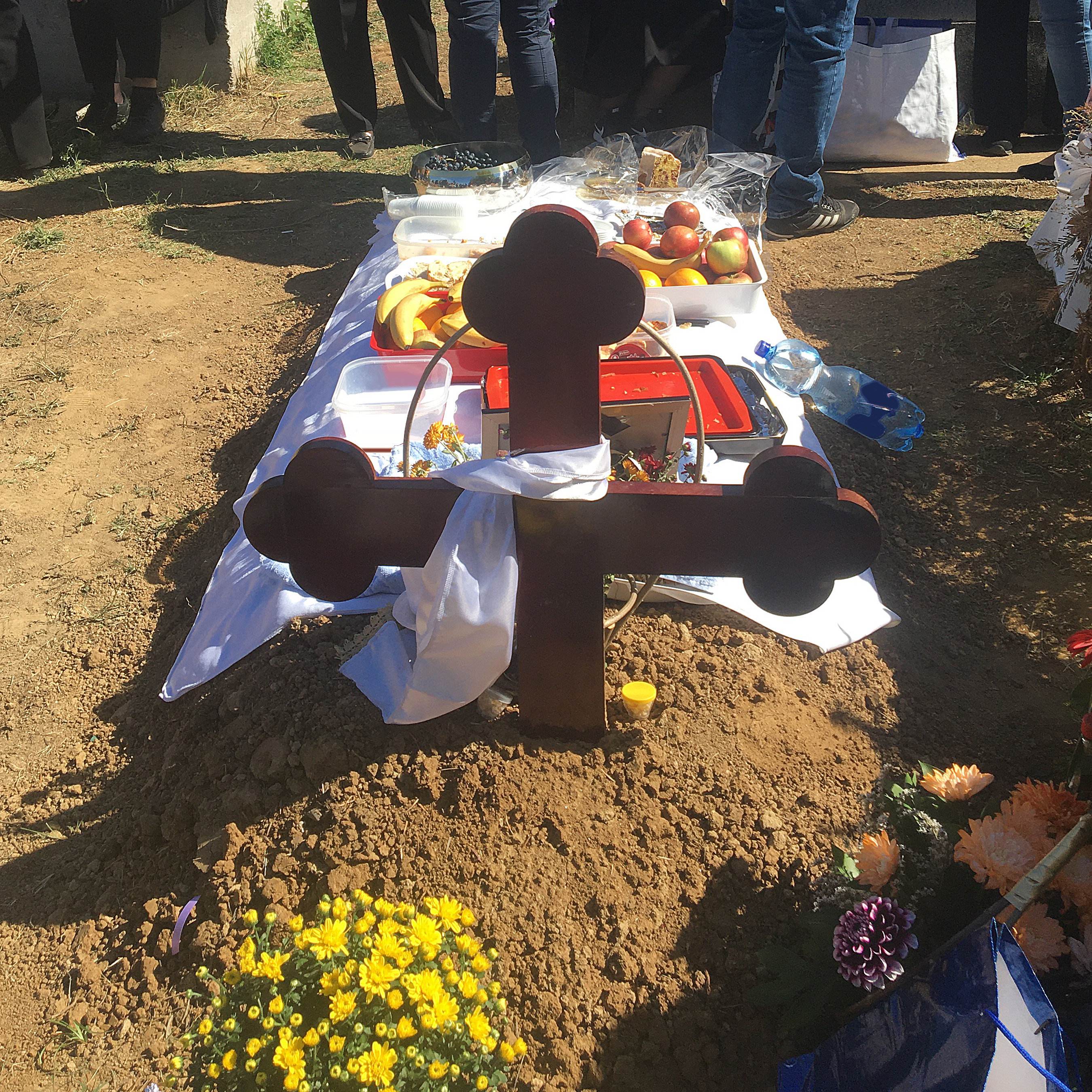 Parastos in Serbia